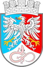 COA - Postumia